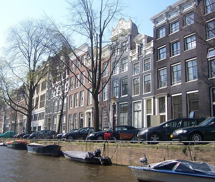 Some of the houses along one of the canals.